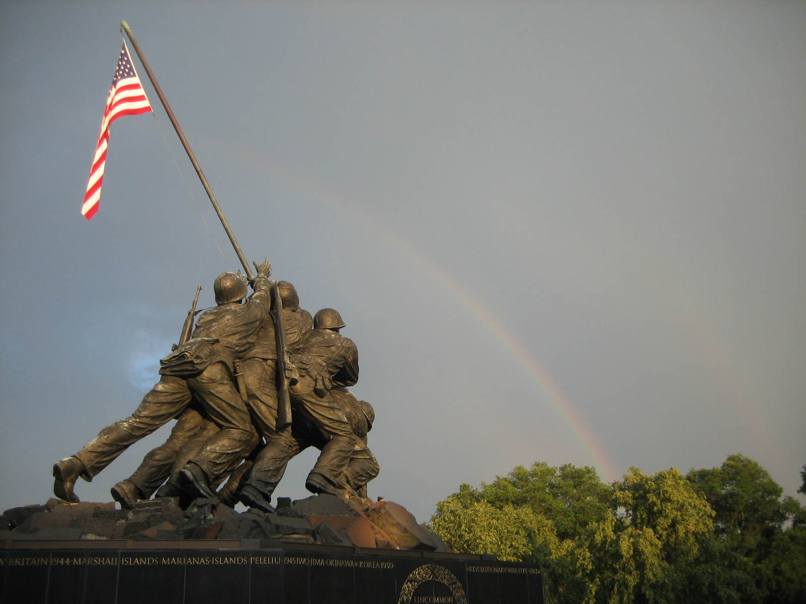 U.S. Marine Corps War Memorial with double rainbow, Rosslyn (Arlington County), Virginia, USA.